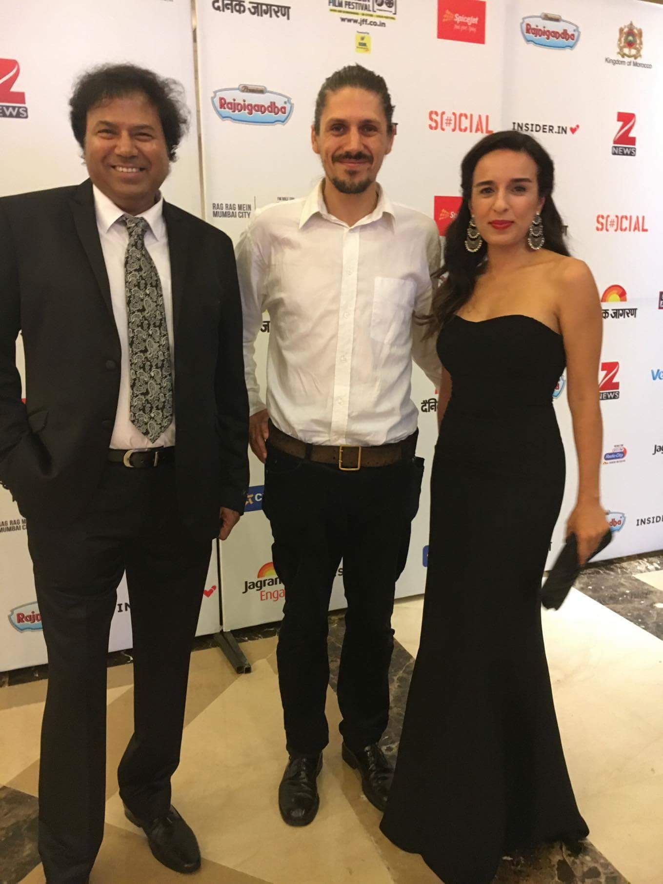 Otwin Biernat at the 8th Jagran Film Festival award ceremony